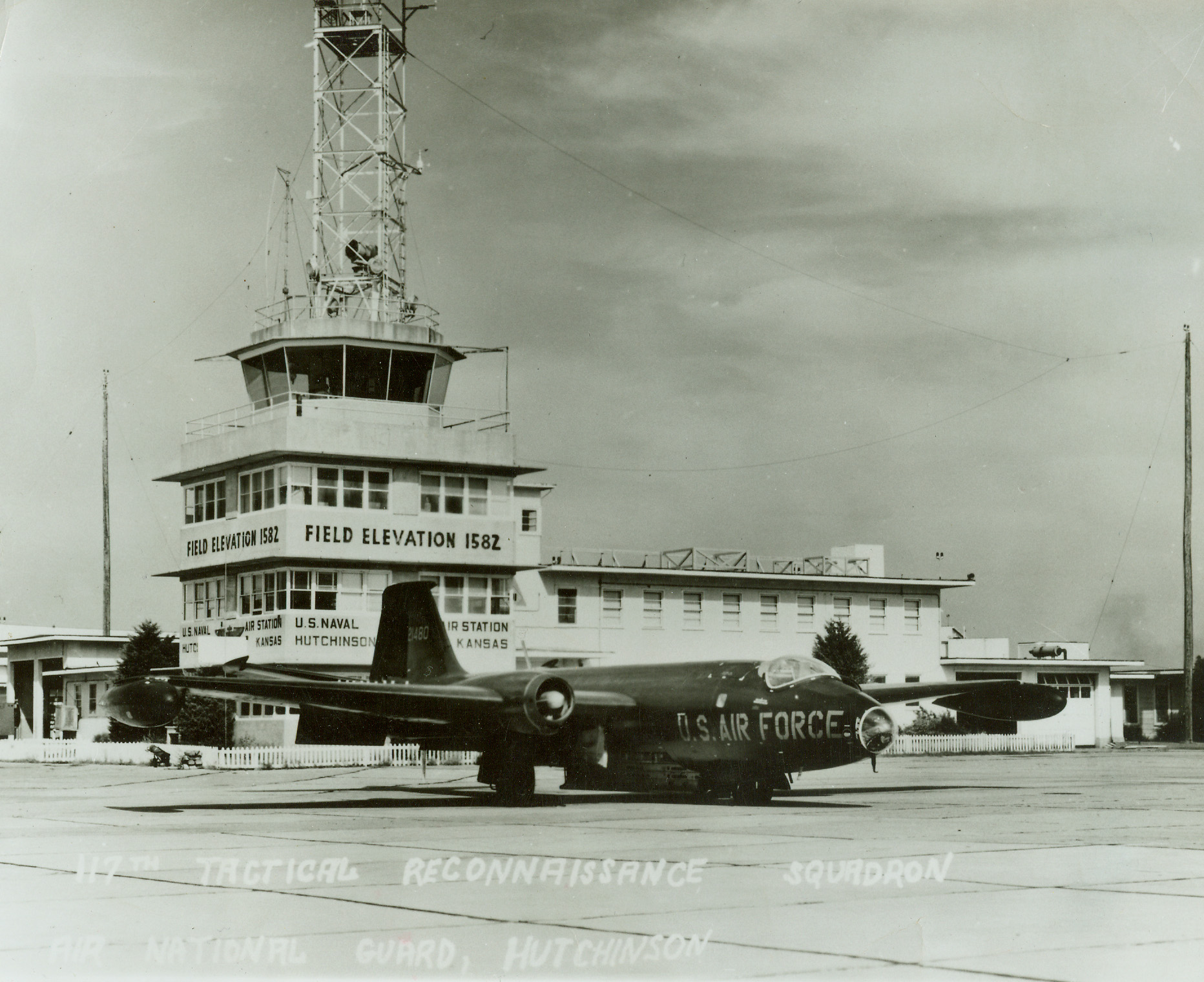 A U.S. Air Force Martin RB-57A-MA Canberra (s/n 52-1480) of the 117th Tactical Reconnaissance Squadron, 190th Tactical Reconnaissance Group, Kansas Air National Guard at U.S. Naval Air Station Hutchinson, Kansas (USA), in the 1960s.